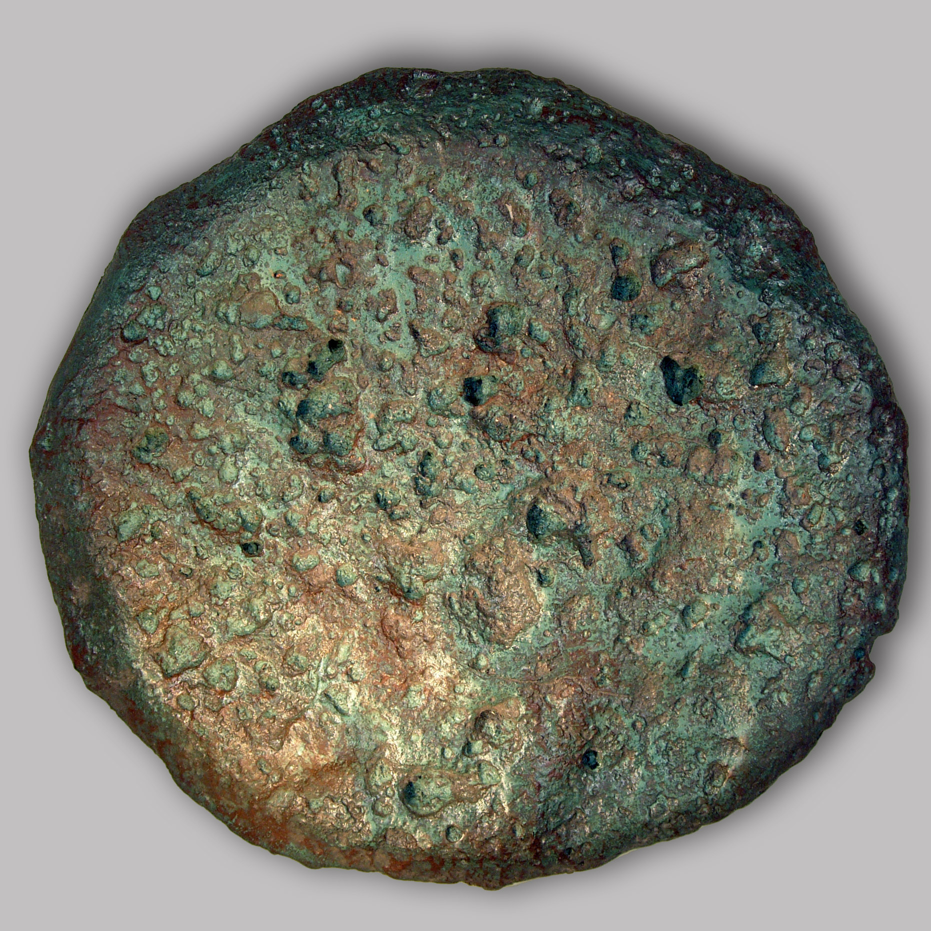 Copper bar (replica) from mining during medival age on Heligoland; found by divers in the coastal waters of the island. Schulz 1981 (pdf 2 MB)